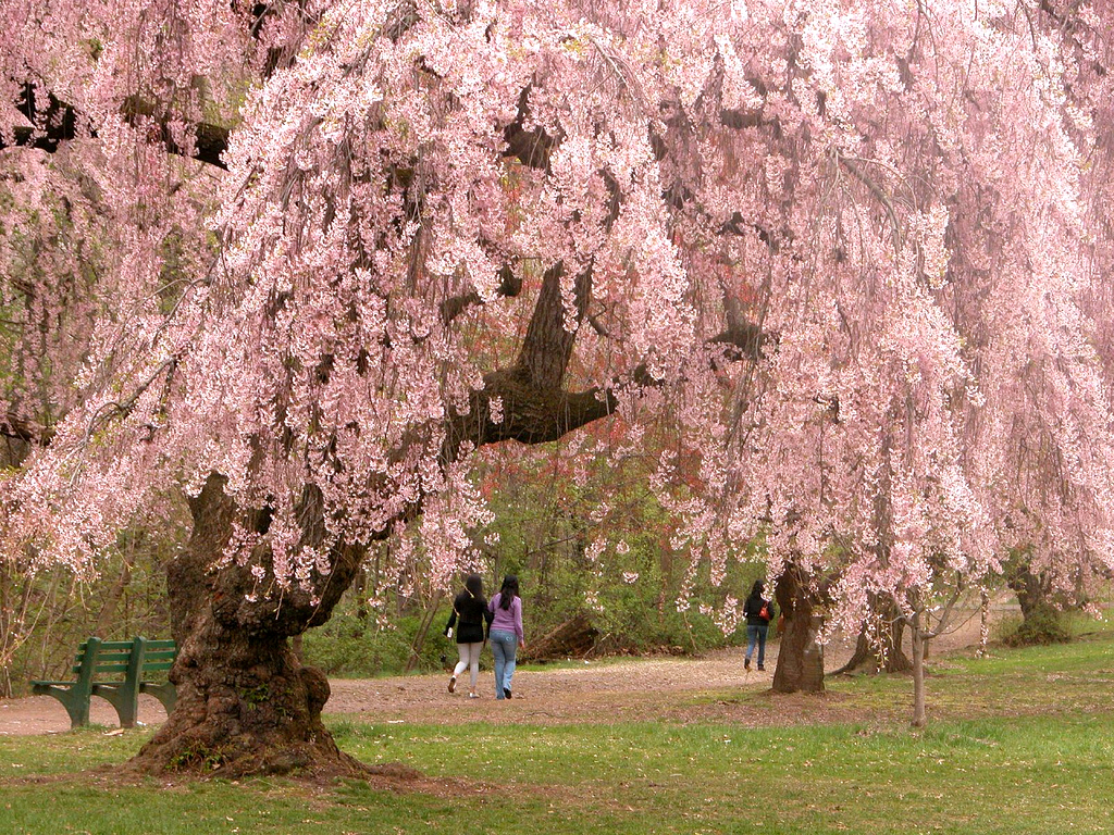 Cherry blossoms in Branch Brook Park, Newark, NJ, USA.